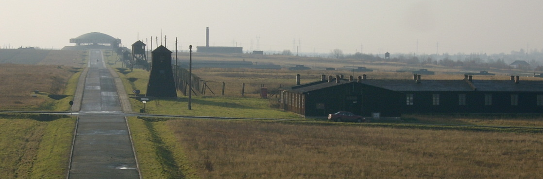 View on the memorial place of the concentration camp Majdanek.